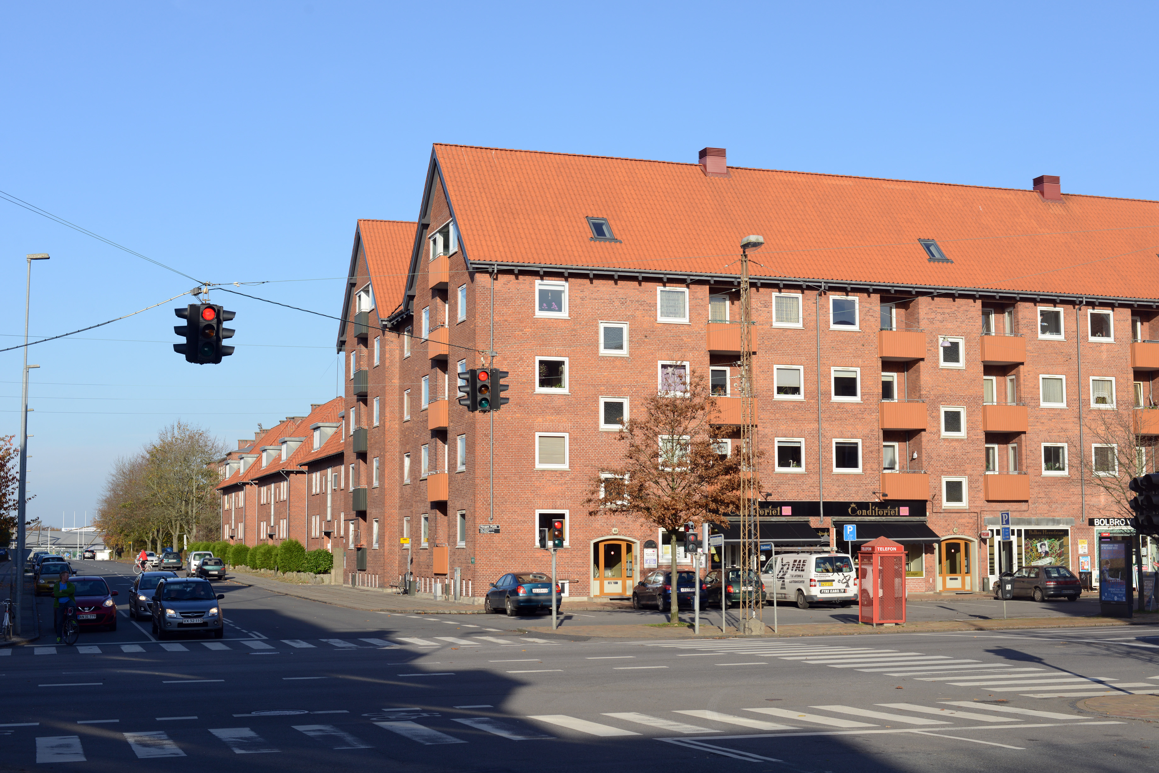 Hauges Plads in Bolbro, Odense, looking down Stadionvej.